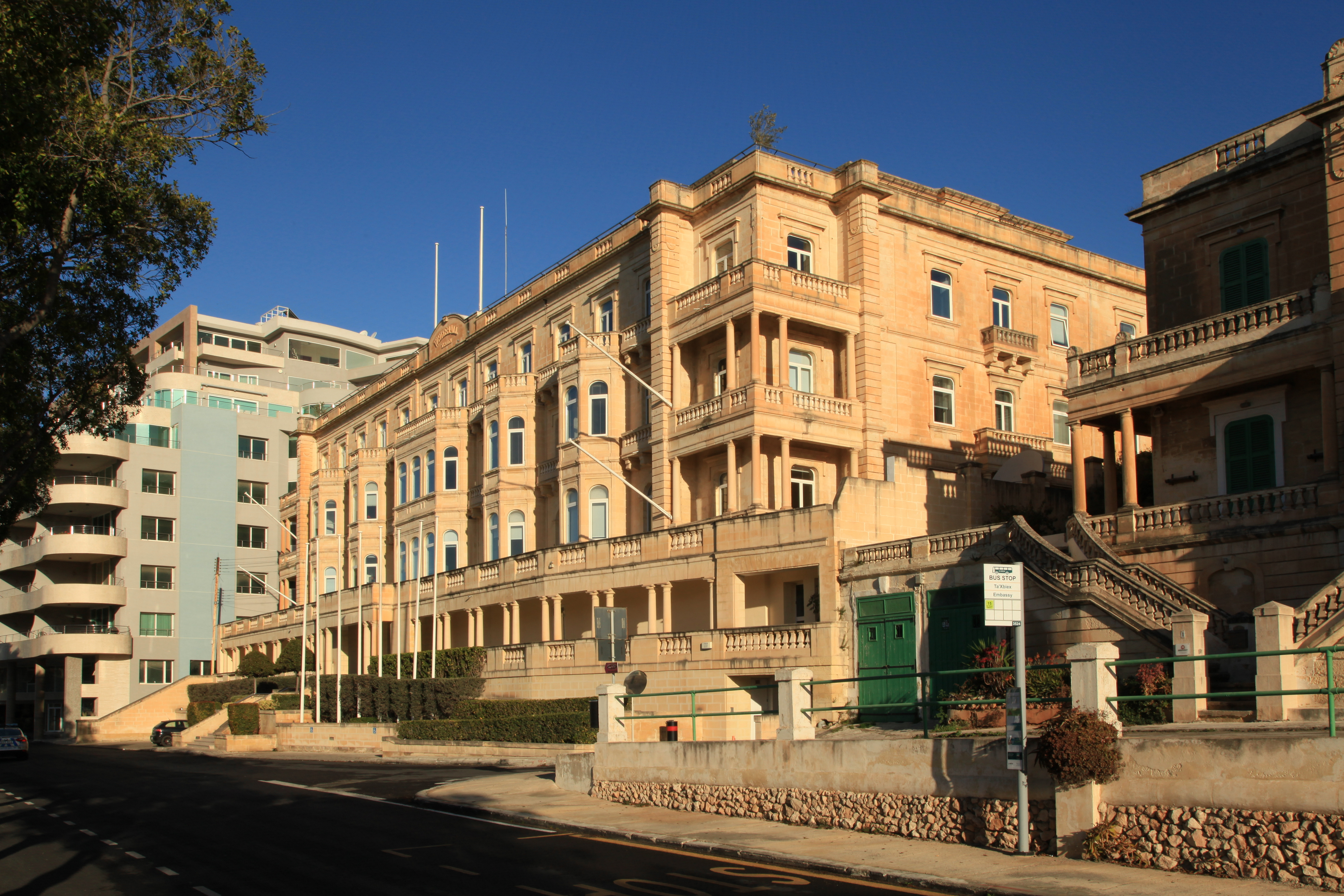 Ix-Xatt Ta' Xbiex (below) and Ir-Rampa Ta' Xbiex (above) in Ta' Xbiex, Malta